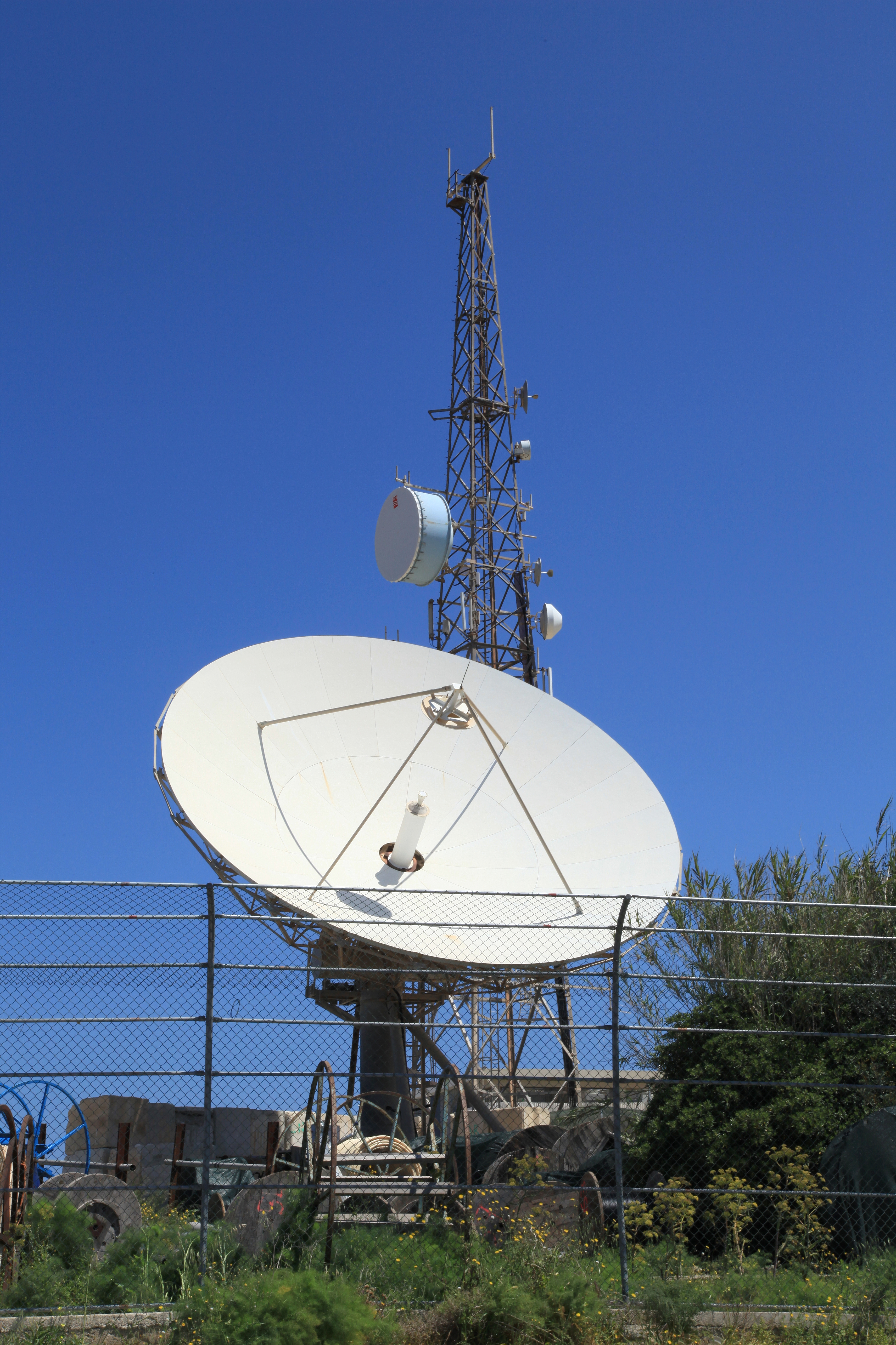 Melita telecommunication company at Triq il-Madliena in Swieqi, Malta